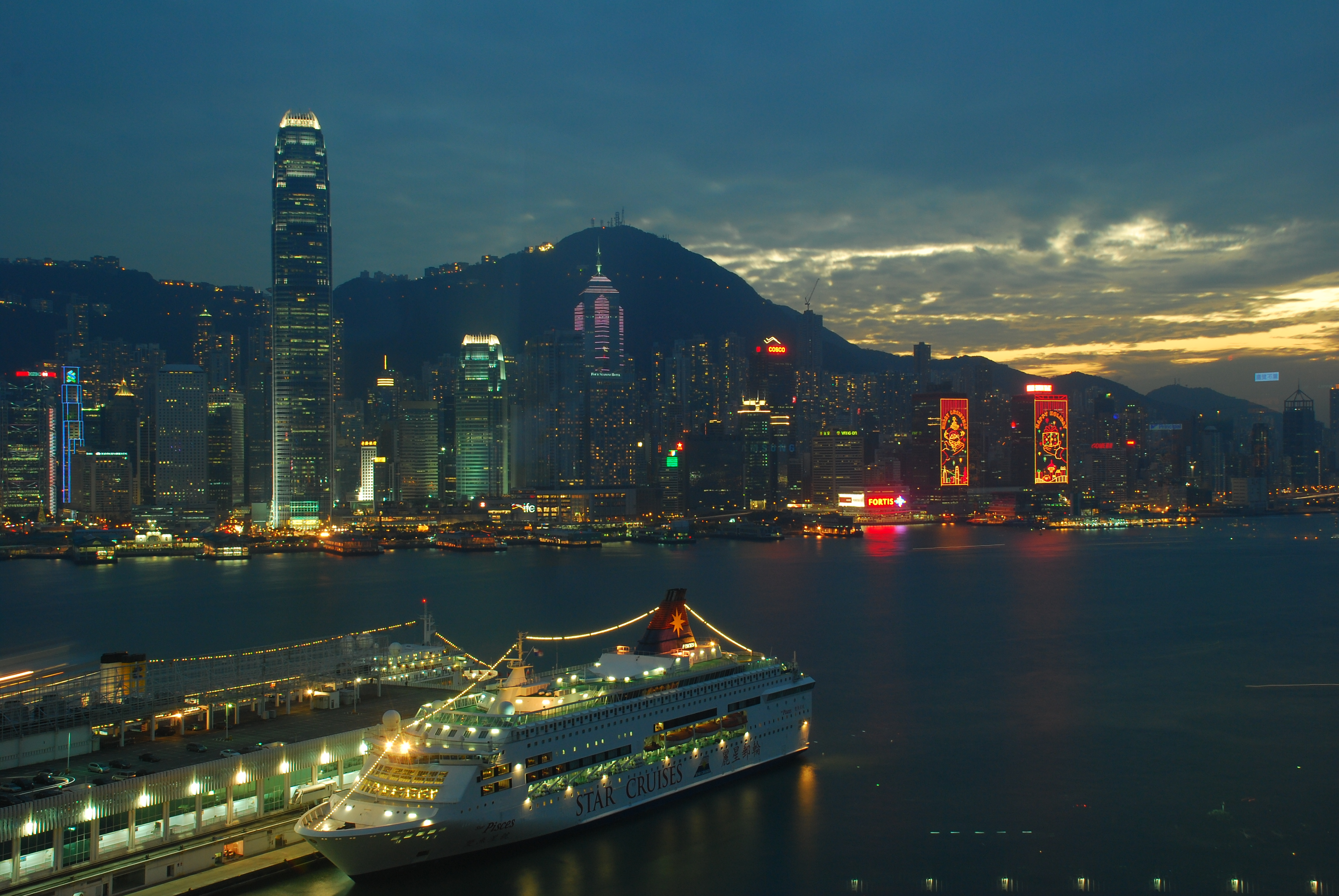 Hong Kong Ocean Terminal 2009 new years celebration with Star Cruises ship Star Pisces as a beautiful back drop to Victoria Harbor.